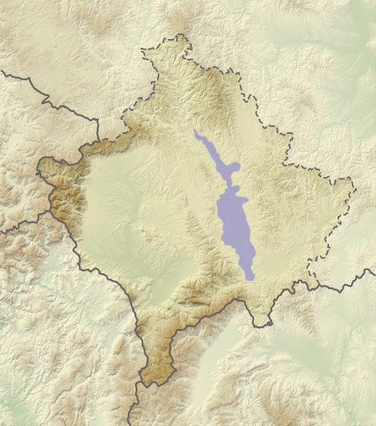 Kosovo field region on relief map of Kosovo.